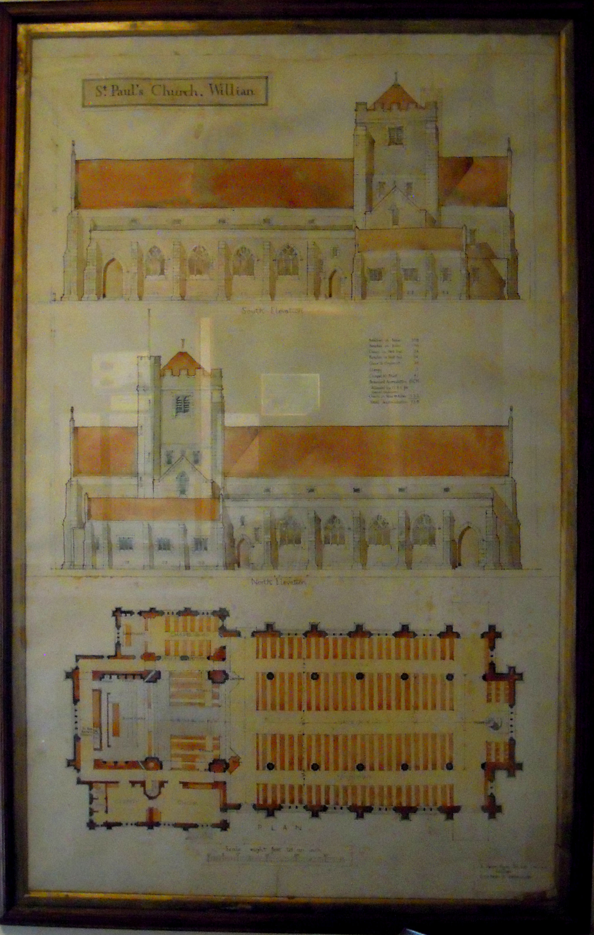 The design by Arthur Heron Ryan Tenison for the Church of St Paul in Letchworth in Hertfordshire was never completed